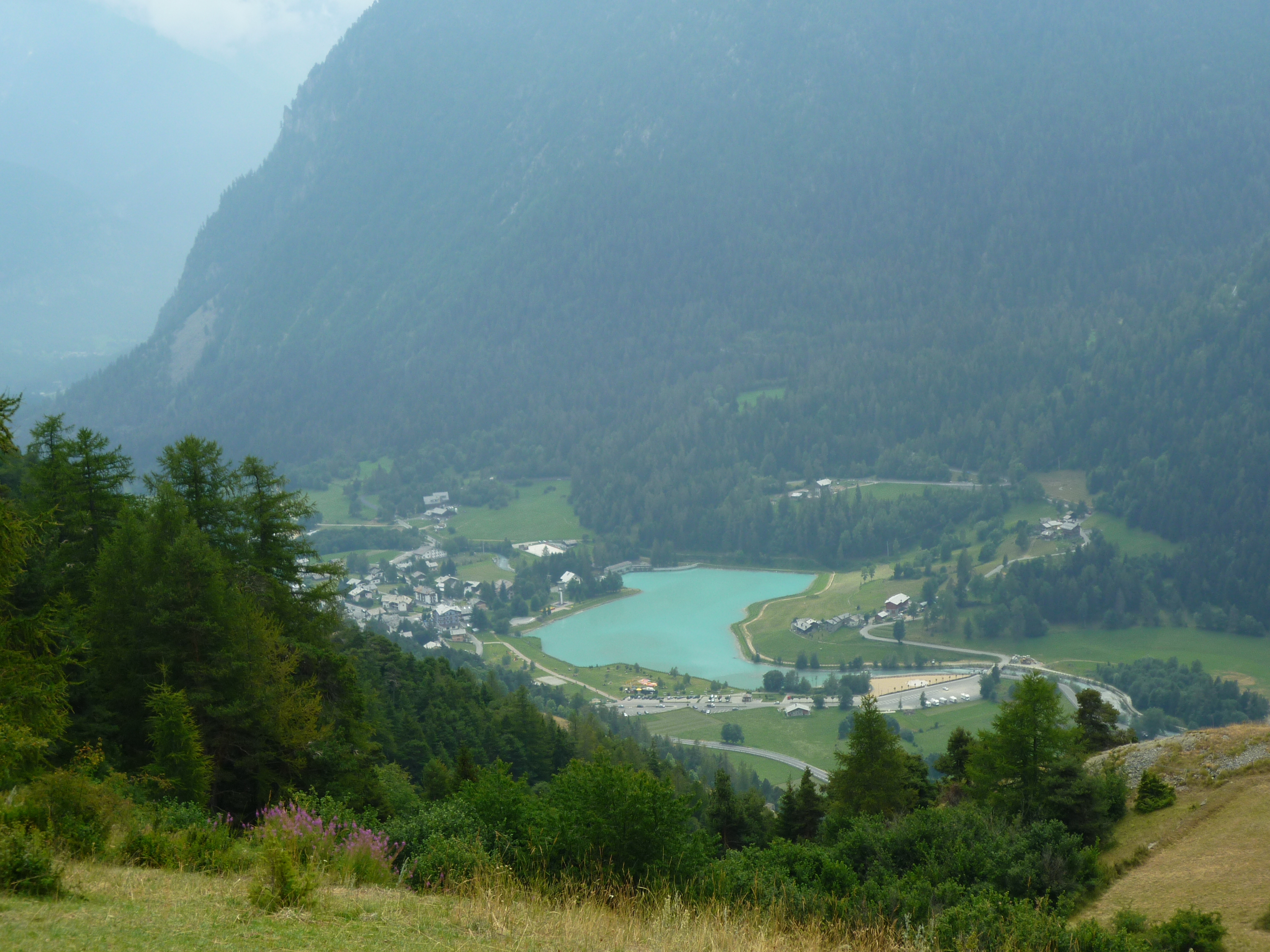 Artificial lake in Brusson (Aosta Valley, Italy)